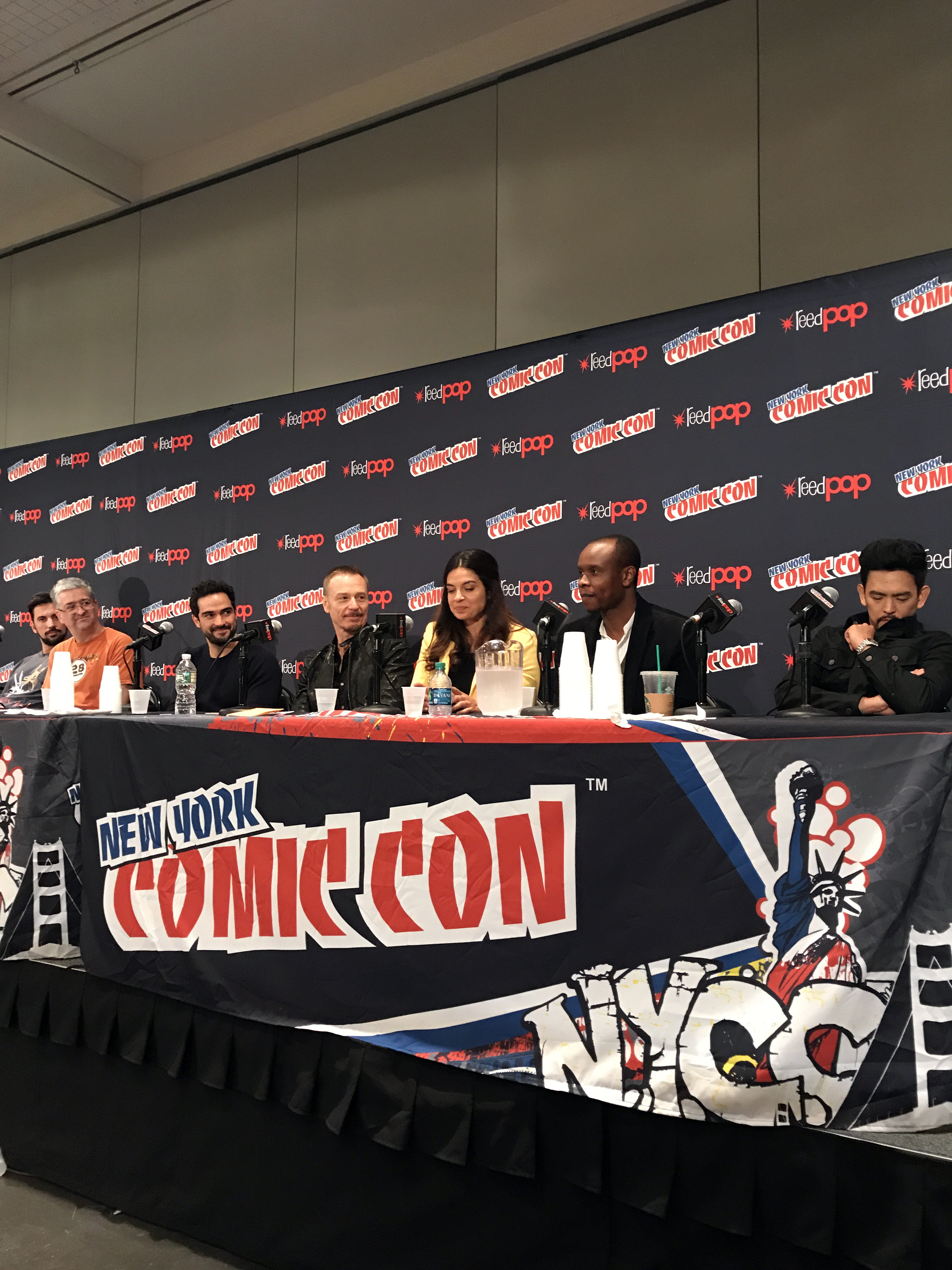 Cast and crew of the 2016 - 2018 TV series The Exorcist at a moderated panel discussion dedicated to that series on Sunday, October 8, 2017 at the Jacob K. Javits Convention Center in Manhattan, Day 4 of the 2017 New York Comic Con. From left to right: Producer/writers Jeremy Slater and Sean Crouch; actors Alfonso Herrera, Ben Daniels, Zuleikha Robinson, Kurt Egyiawan, and John Cho. This photo was created by Luigi Novi. It is not in the public domain, and use of this file outside of the licensing terms is a copyright violation.